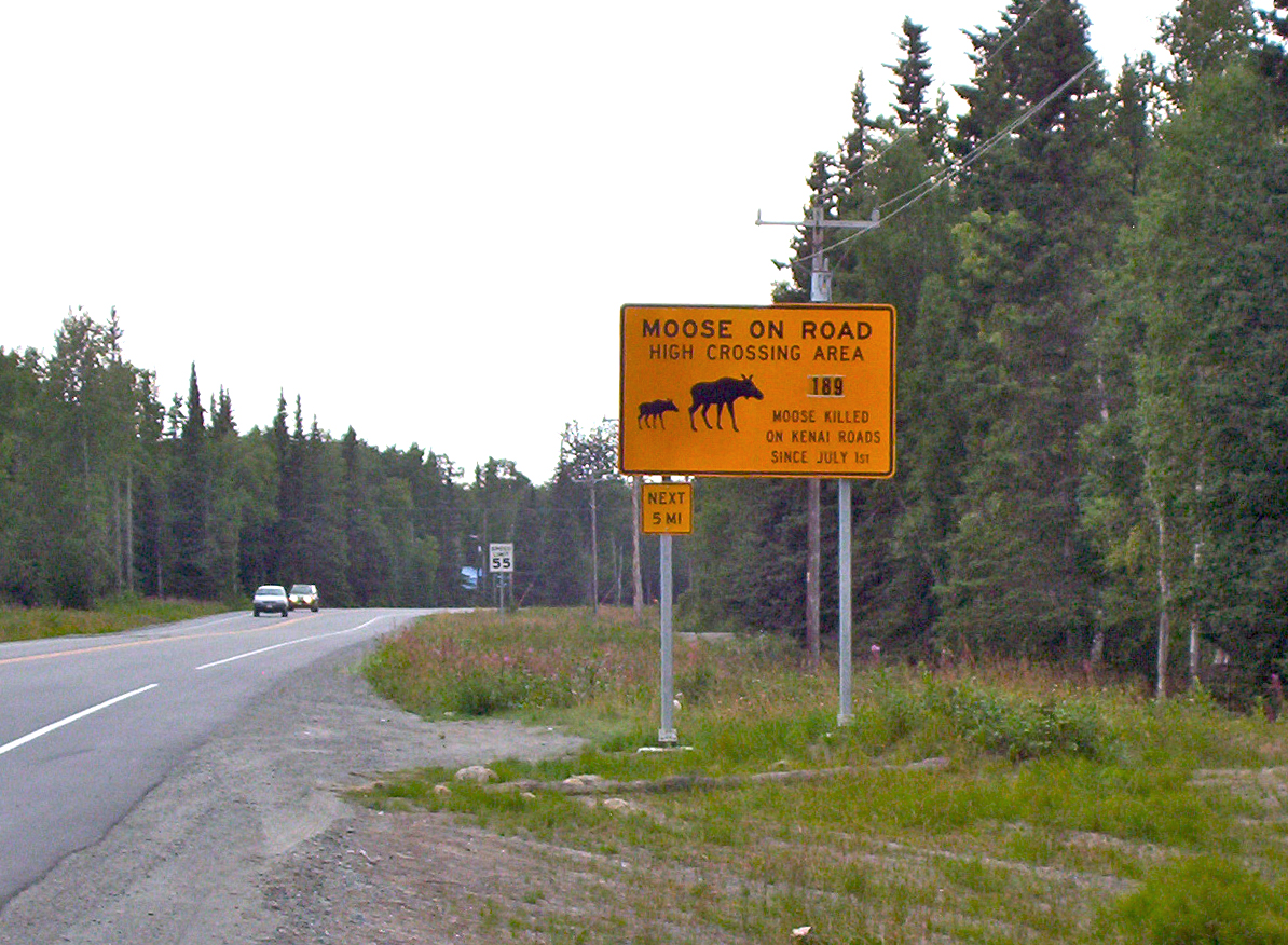 Moose crossing warning sign, Kalifornsky Beach Road, Kenai Alaska